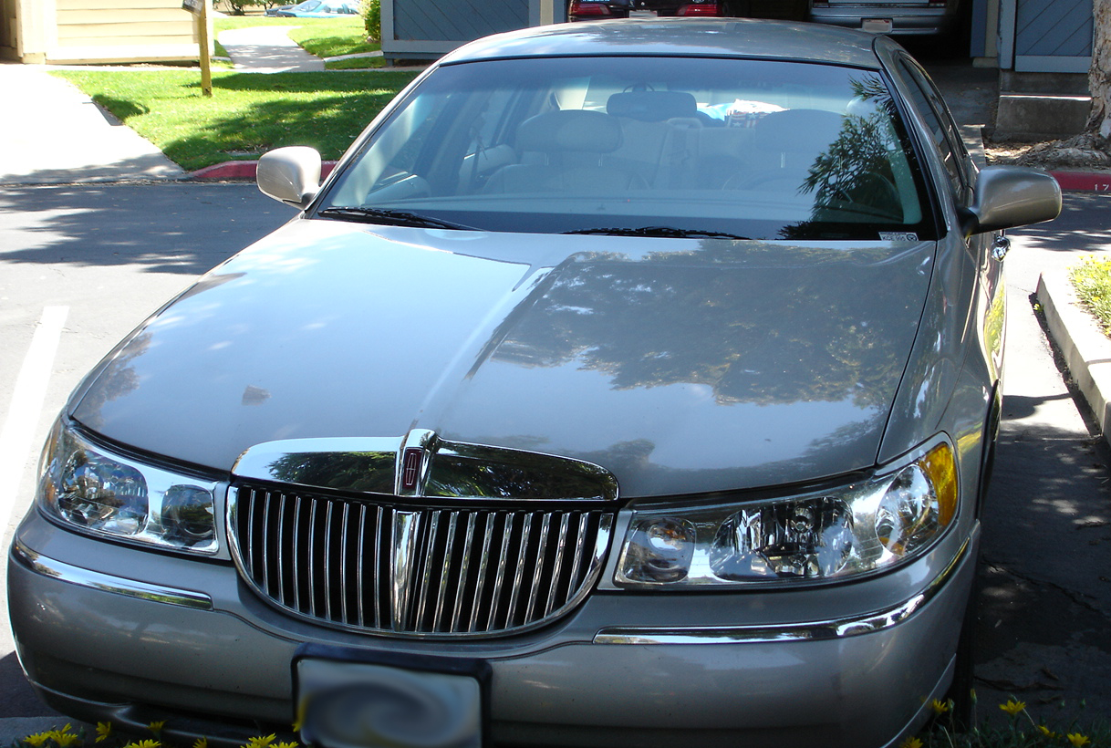 1998 Lincoln Town Car